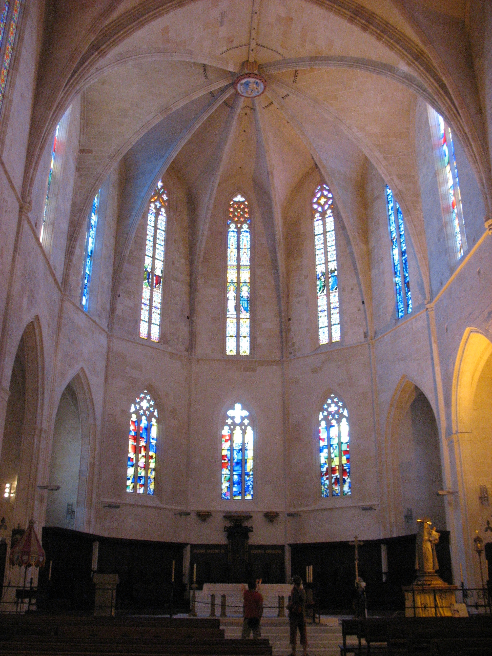 Cathedral of Minorca in Ciutadella (Spain). View of apse.